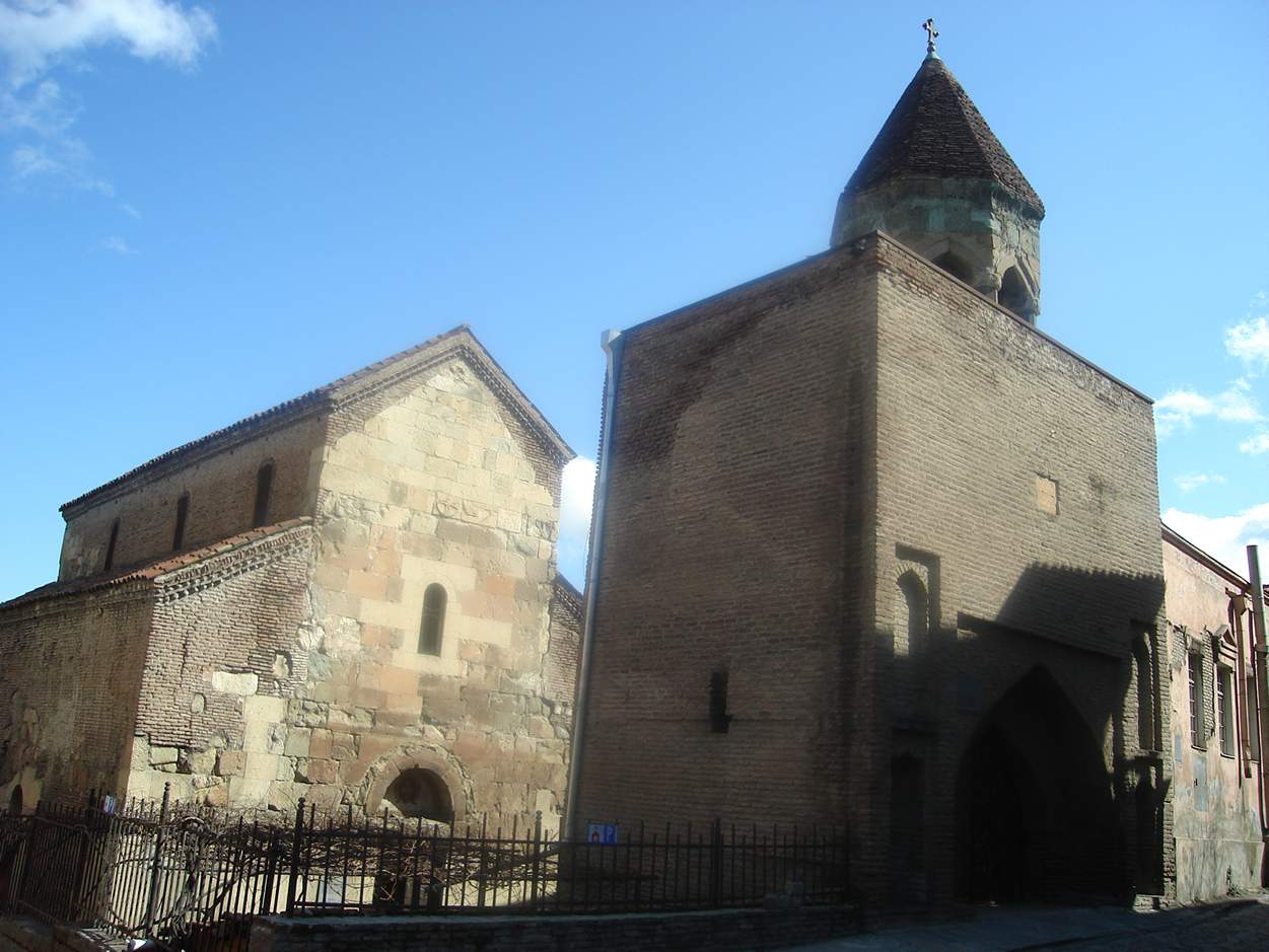 The Anchiskhati Church, Tbilisi